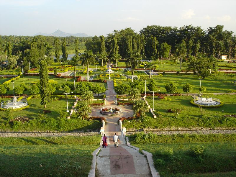 Garden at the Krishnagiri dam